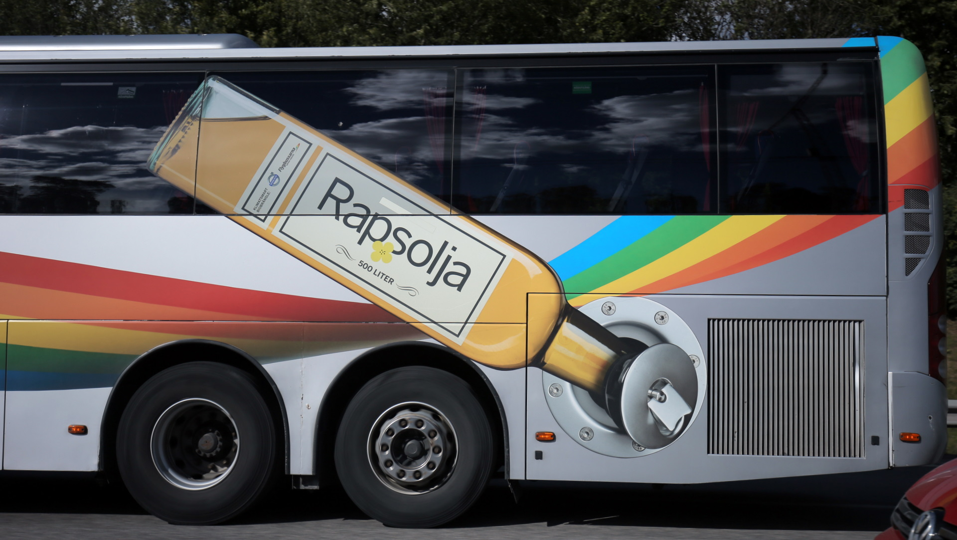 Biodiesel image on airport shuttle bus in Sweden